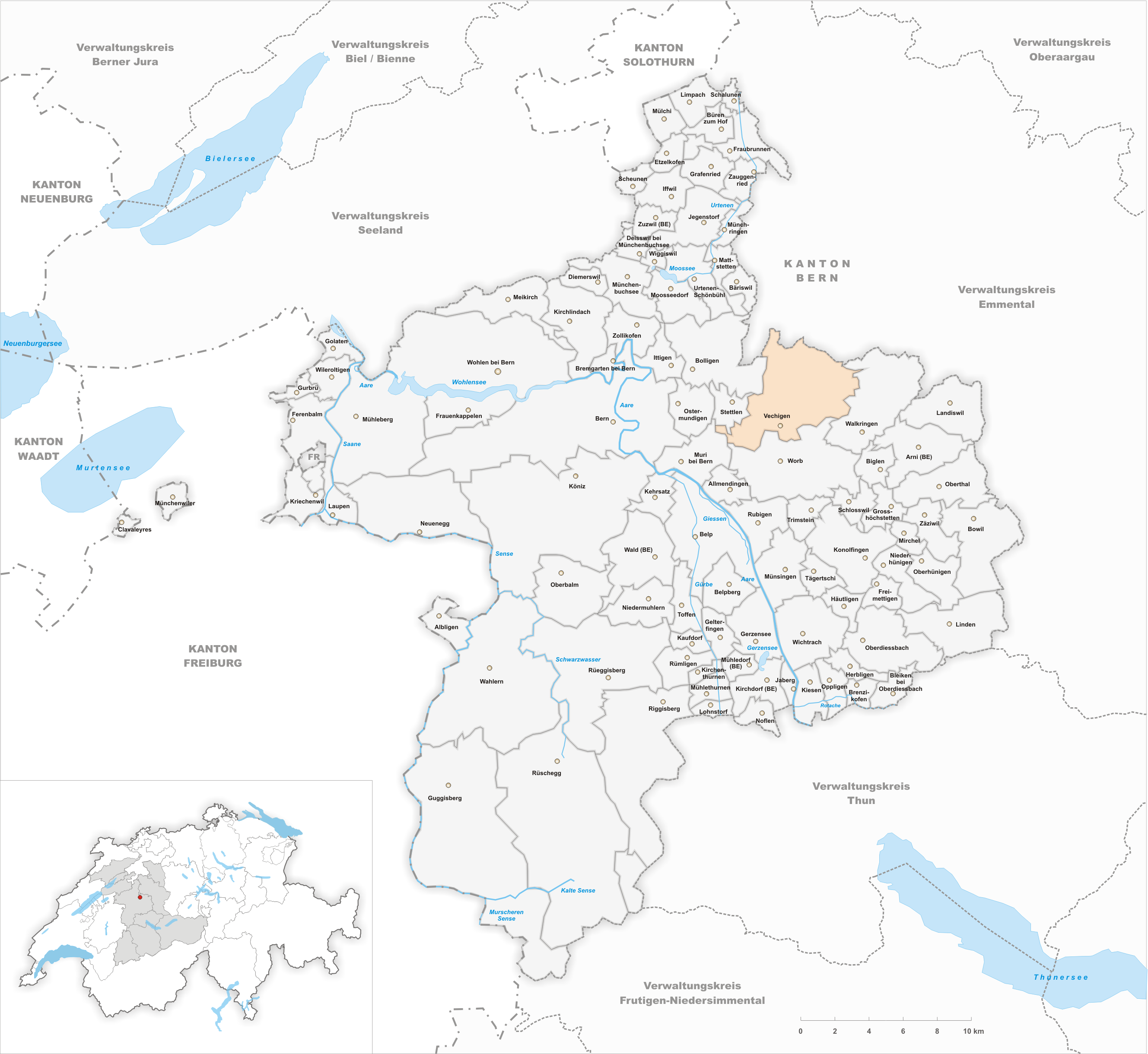 Municipality Vechigen